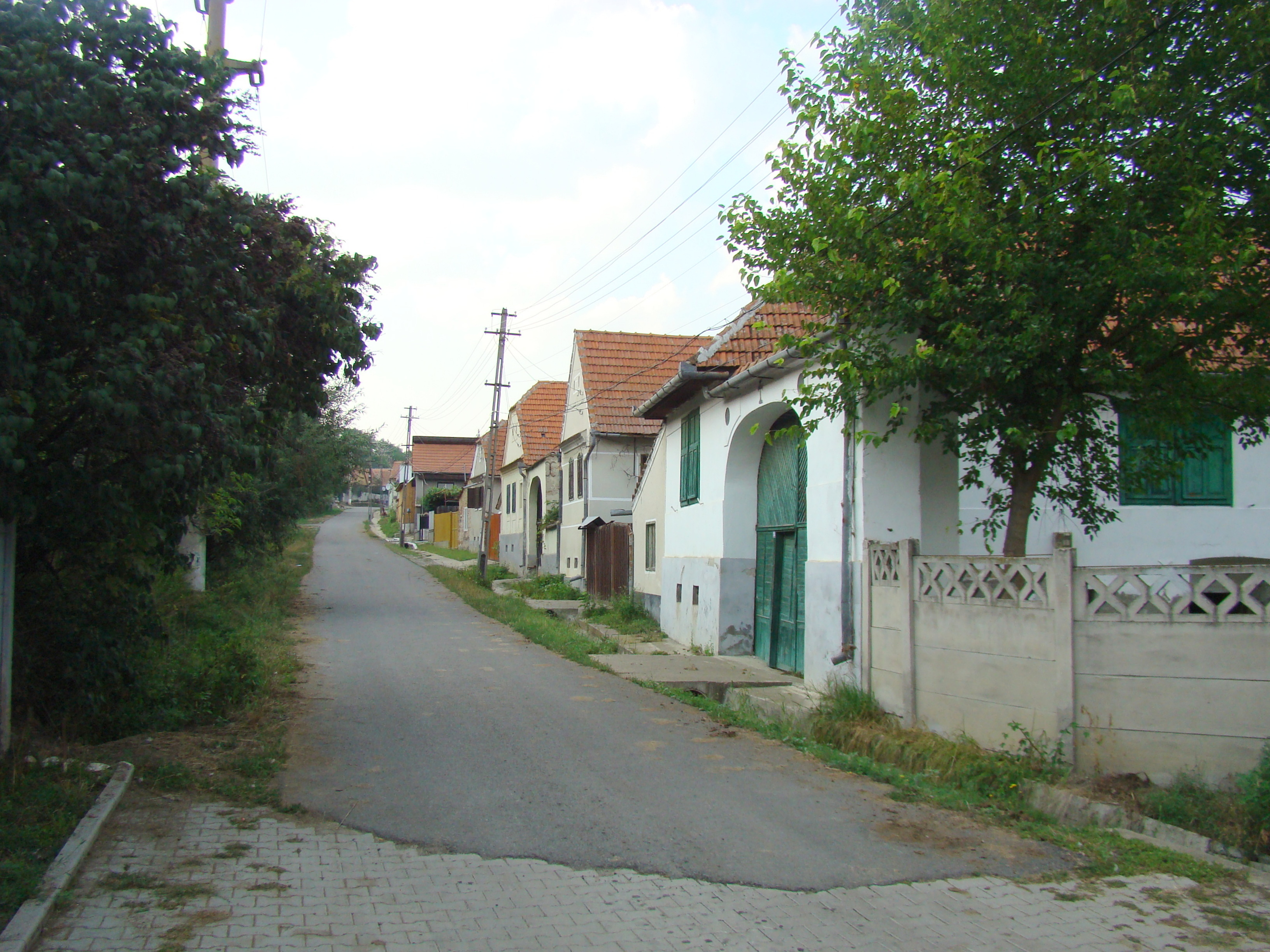 Gusu, Sibiu county, Romania